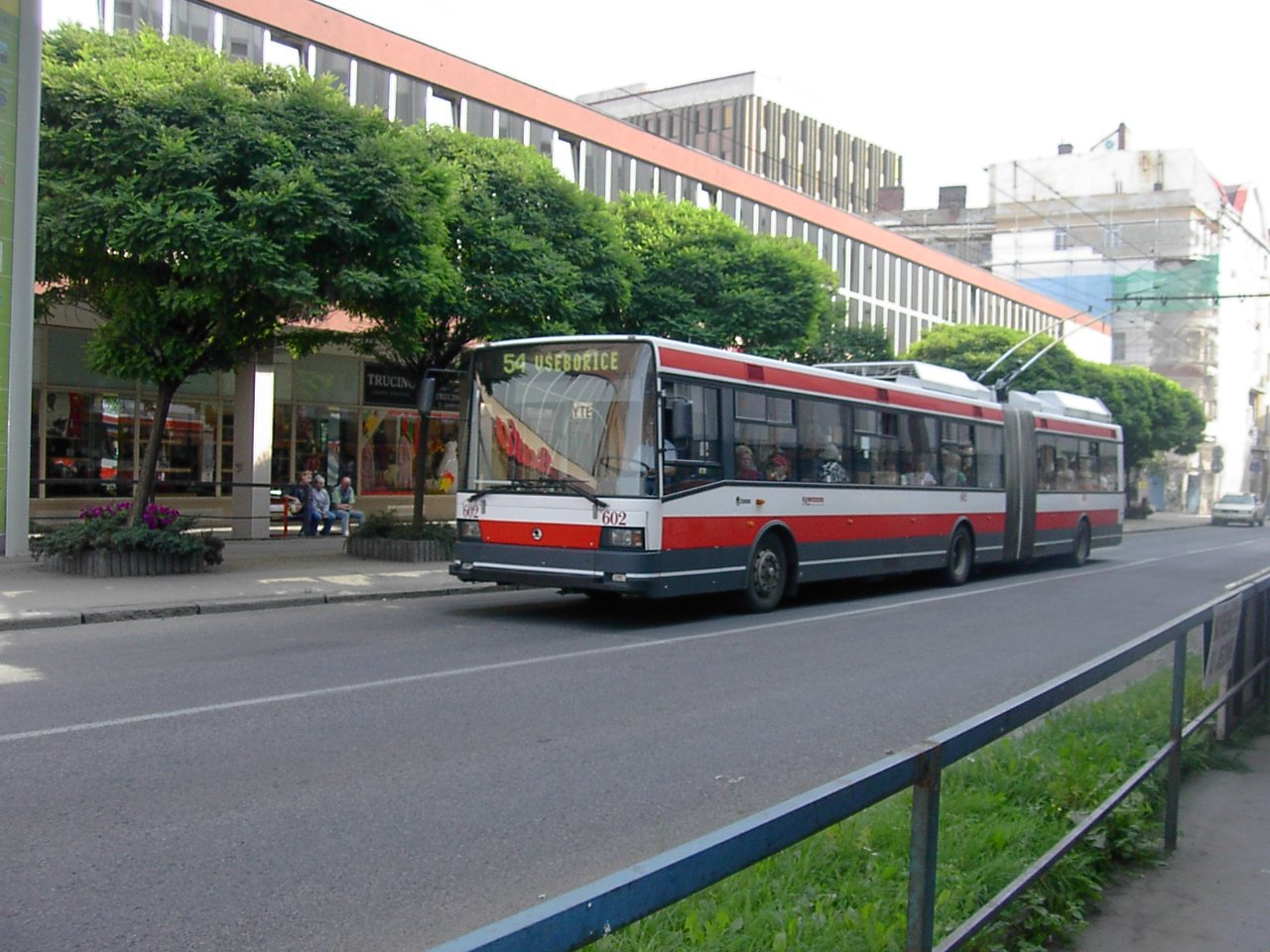 Ústí nad Labem, Revoluční street - city centre, trolleybus Škoda 22Tr